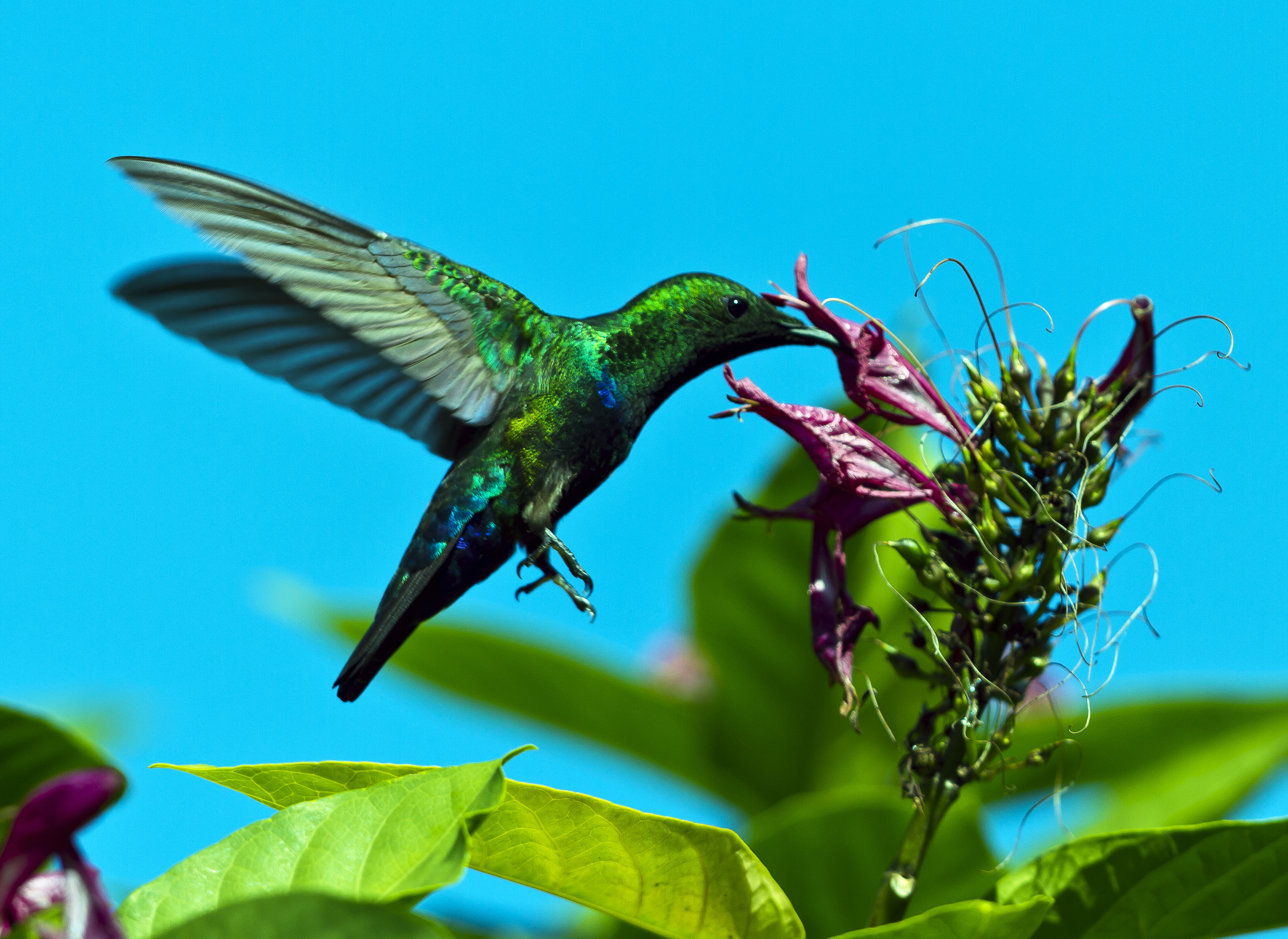 Male Green throated carib hummingbird feeding. Eulampis holosericeus